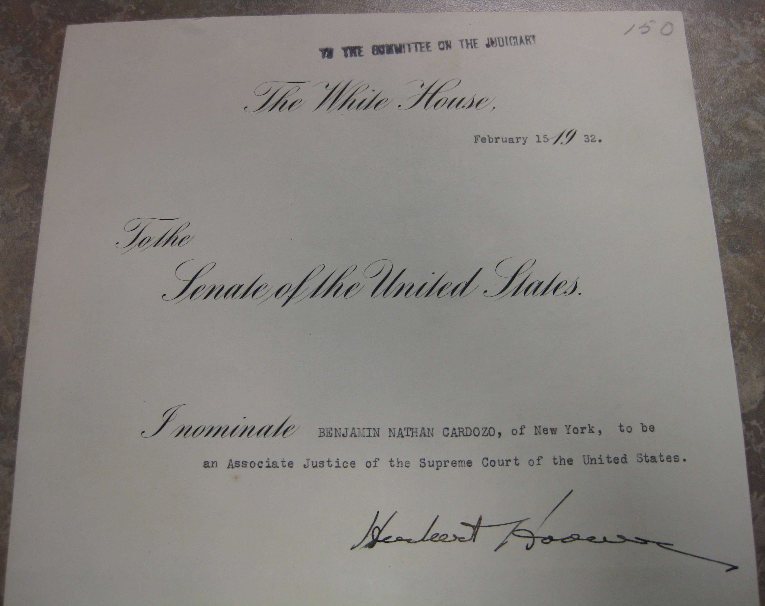 Herbert Hoover's nomination of Benjamin Cardozo to serve on the U.S. Supreme Court. Courtesy of the National Archives and Records Administration.